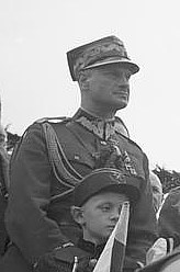 Roman Abraham, (1891 Lwów - 1976 Warszawa) Polish cavalry general, during German & Soviet Invasion of Poland in September 1939 commander of Polish cavalry in the Battle of Bzura